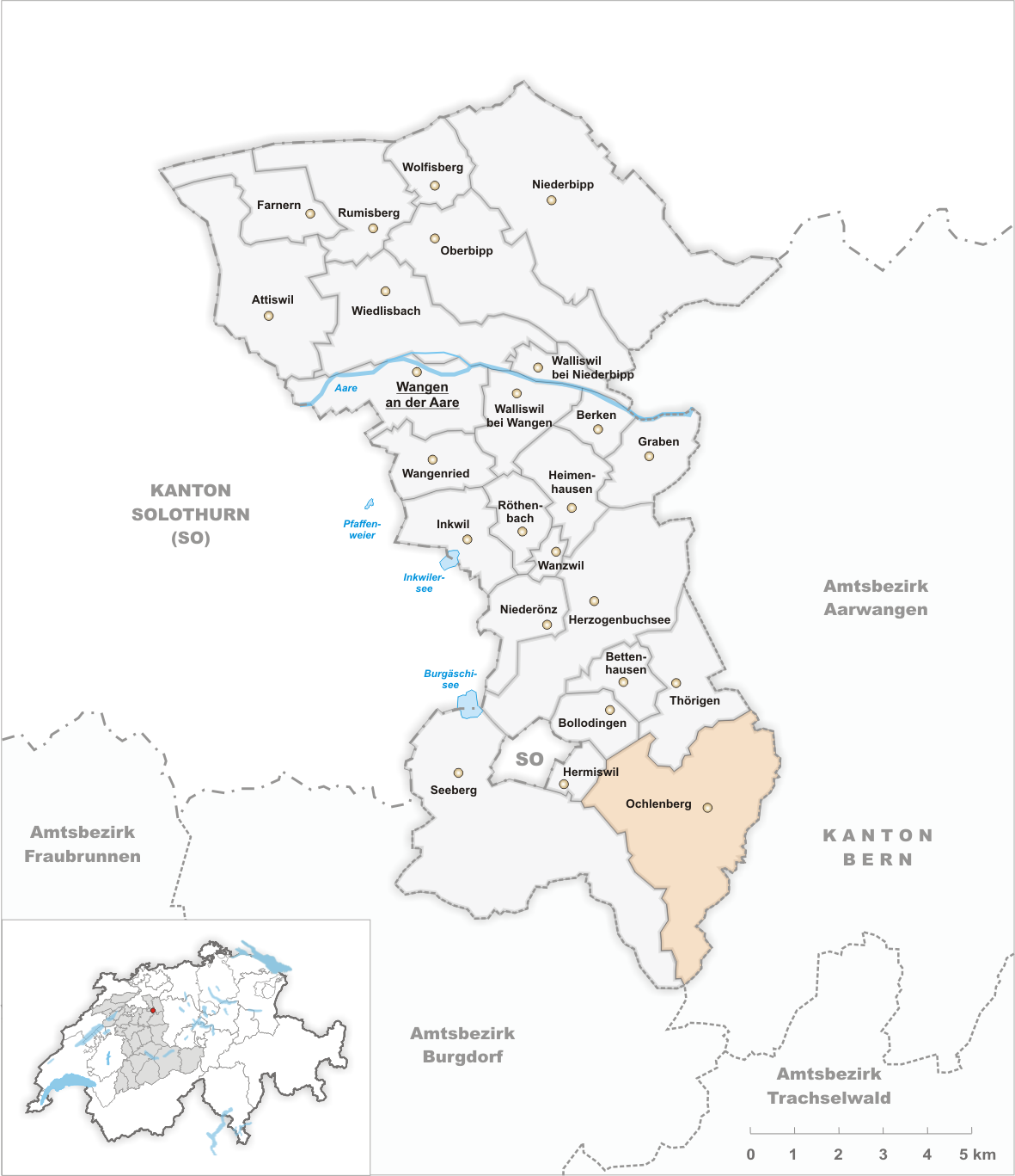 Municipality Ochlenberg